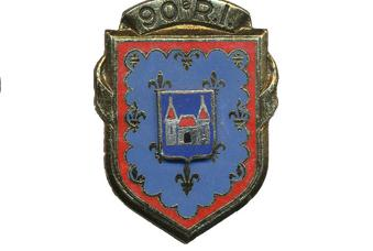 regimental badge of the 90st Infantry Regiment.